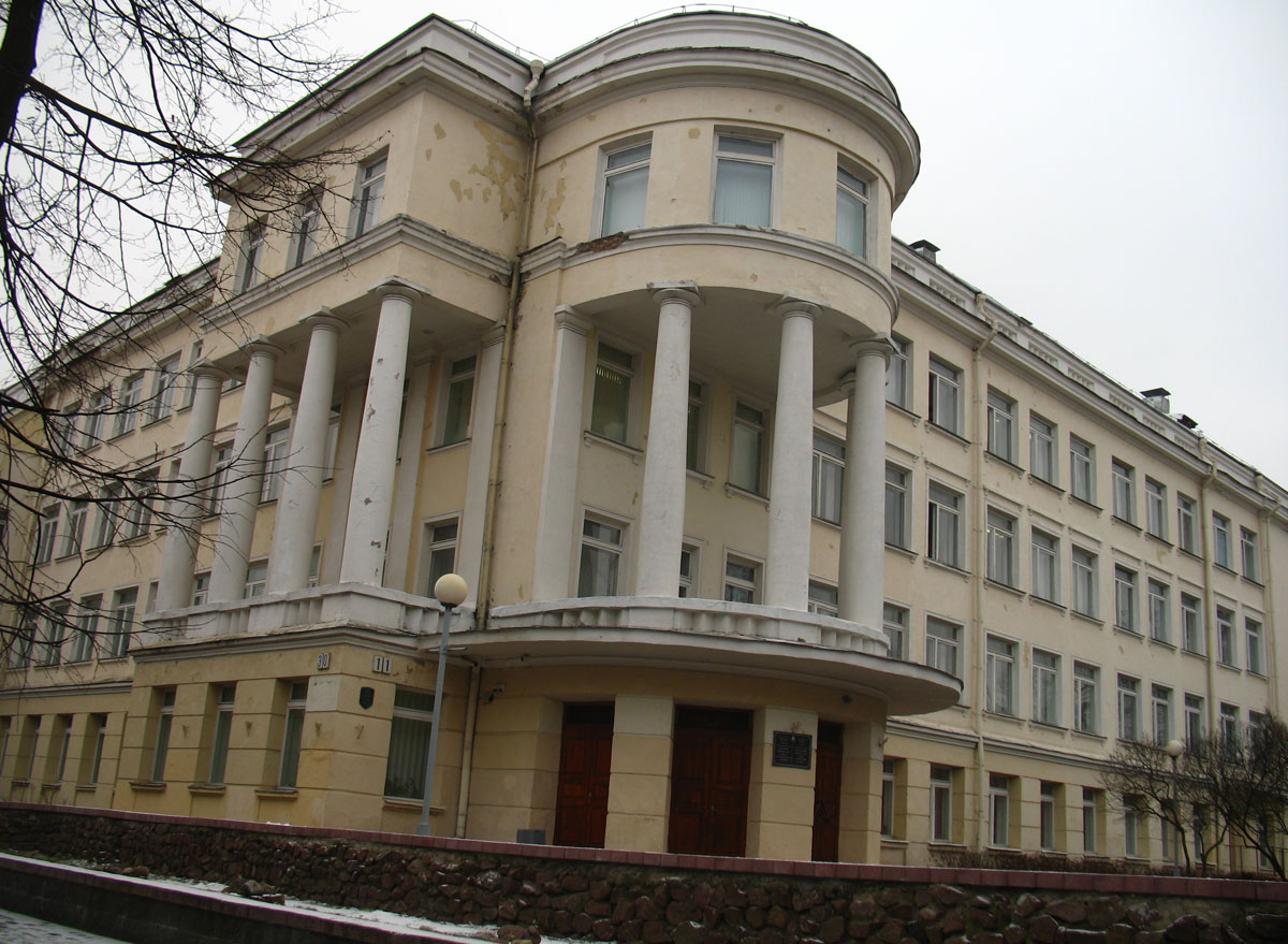 School building in Miensk. The Landmark of Constructivism.